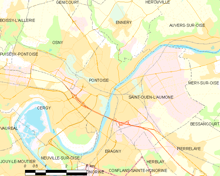 Map of French municipality Pontoise